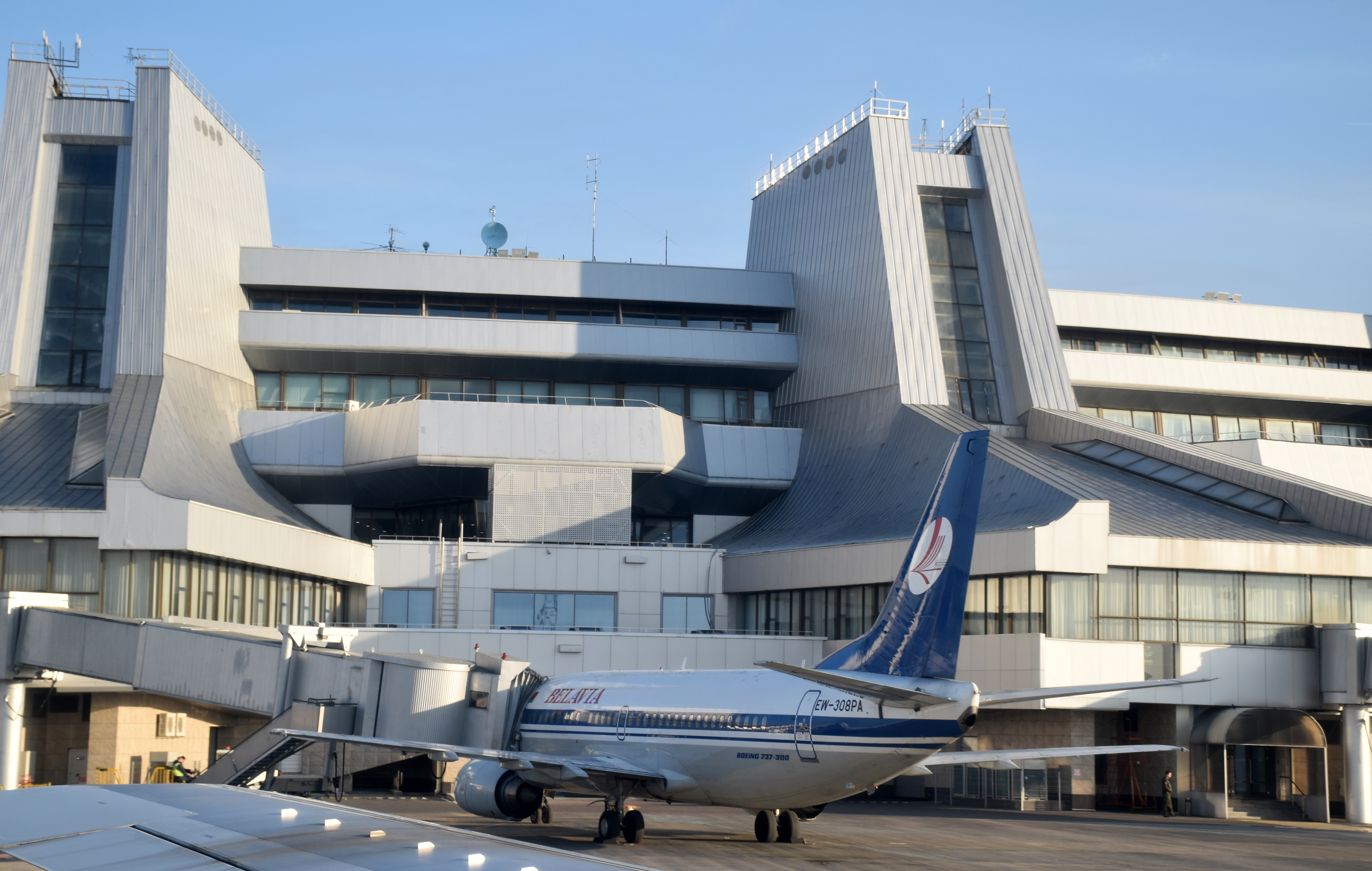 Belavia Boeing 737-3K2 (side number EW-308PA) boarding at Minsk National Airport, Belarus.